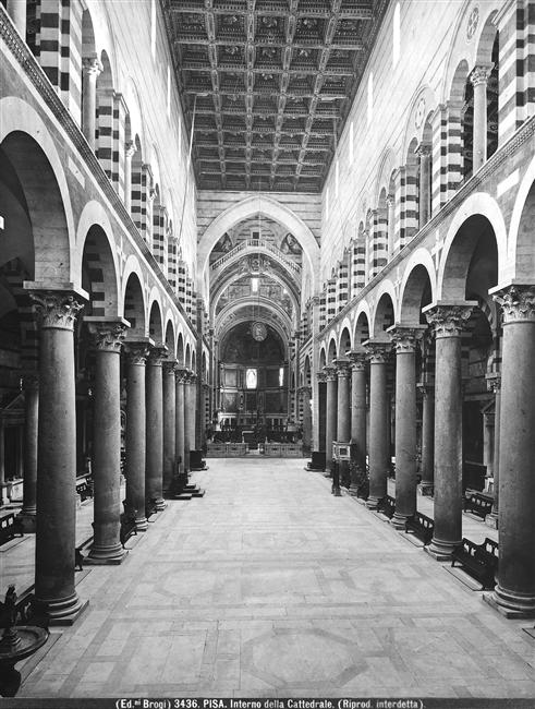 Giacomo Brogi (1822-1881), "Pisa - Interior of the Cathedral". Catalogue # 3436.